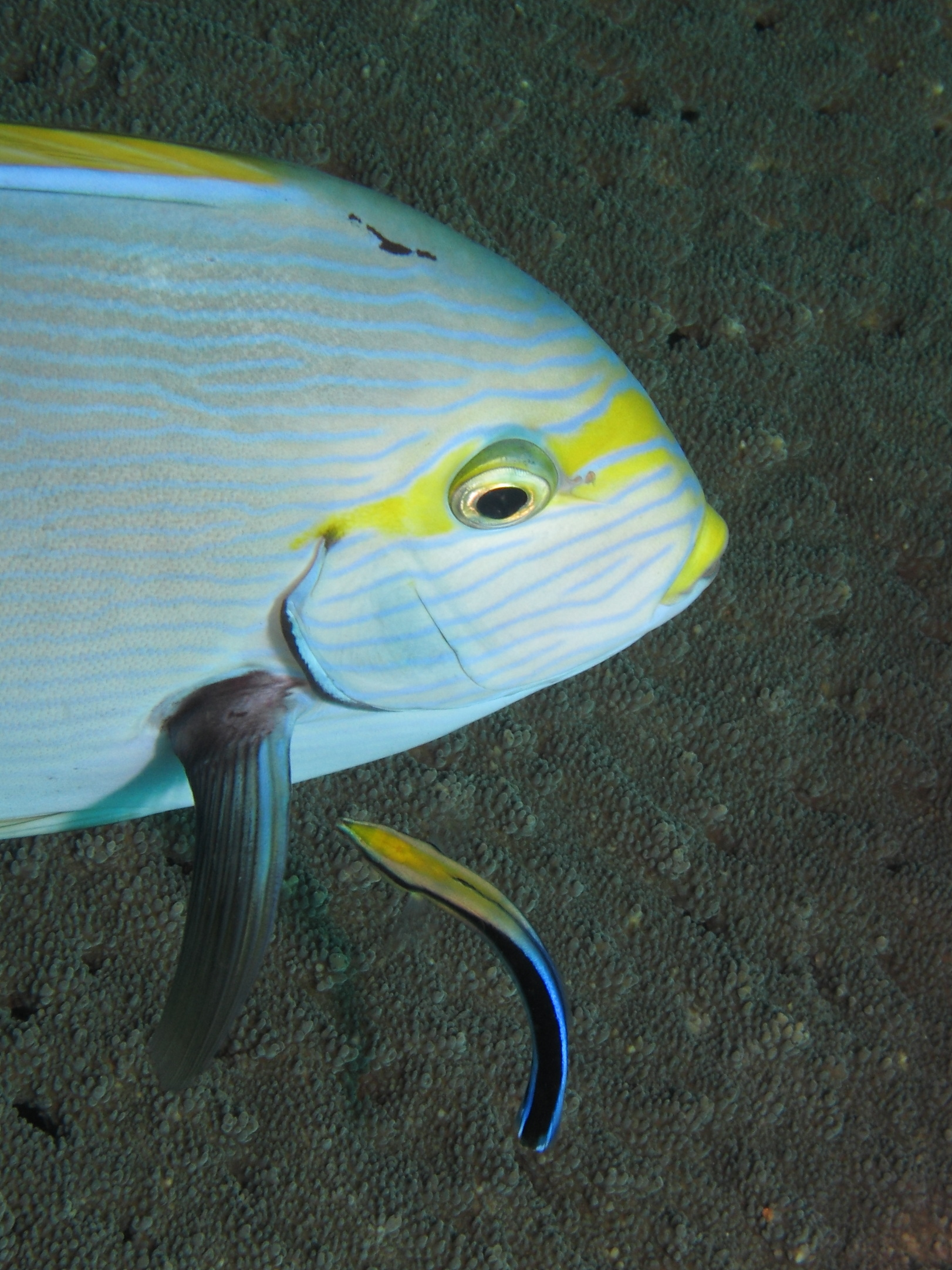 Bluestreak cleaner wrasse (Labroides dimidiatus) with a client (elongate surgeonfish, Acanthurus mata) at cleaning station near Cannibal Rock (Komodo, Indonesia)